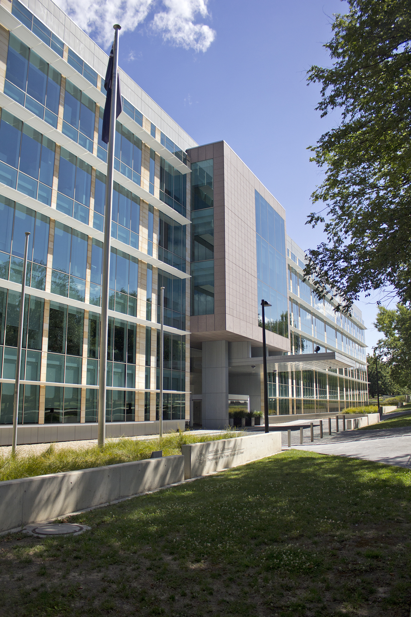 Department of the Prime Minister and Cabinet in Barton, Australian Capital Territory.